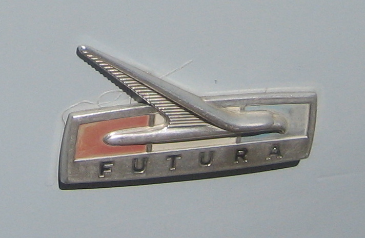 Detail of "Futura" logo on 1965 Ford Falcon Futura